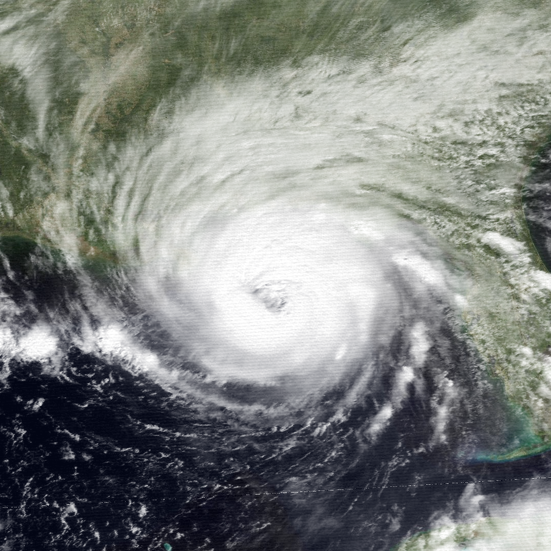 Hurricane Frederic at 1645Z on September 12, 1979